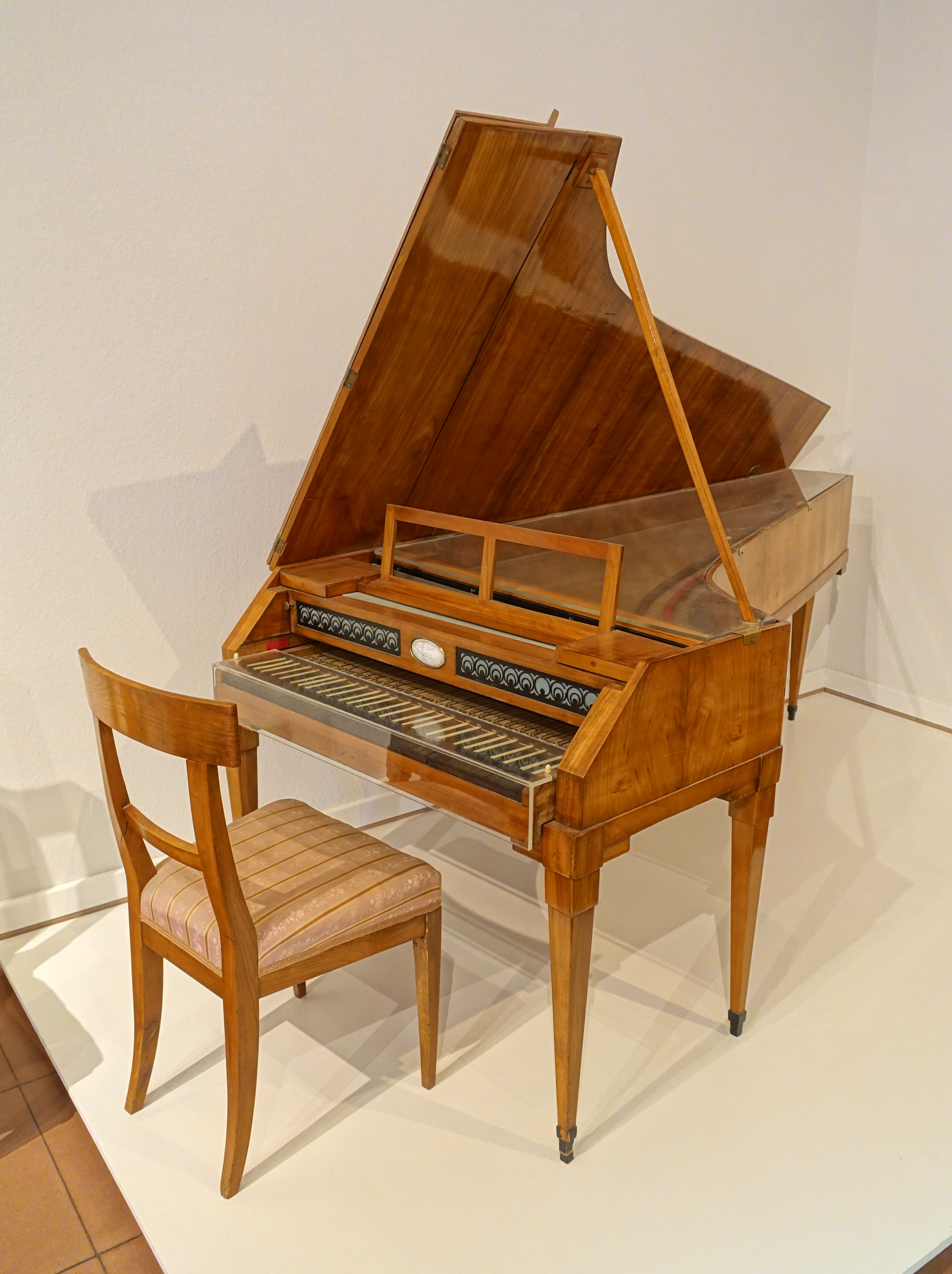 Exhibit in the Mainfränkisches Museum - Würzburg, Germany.